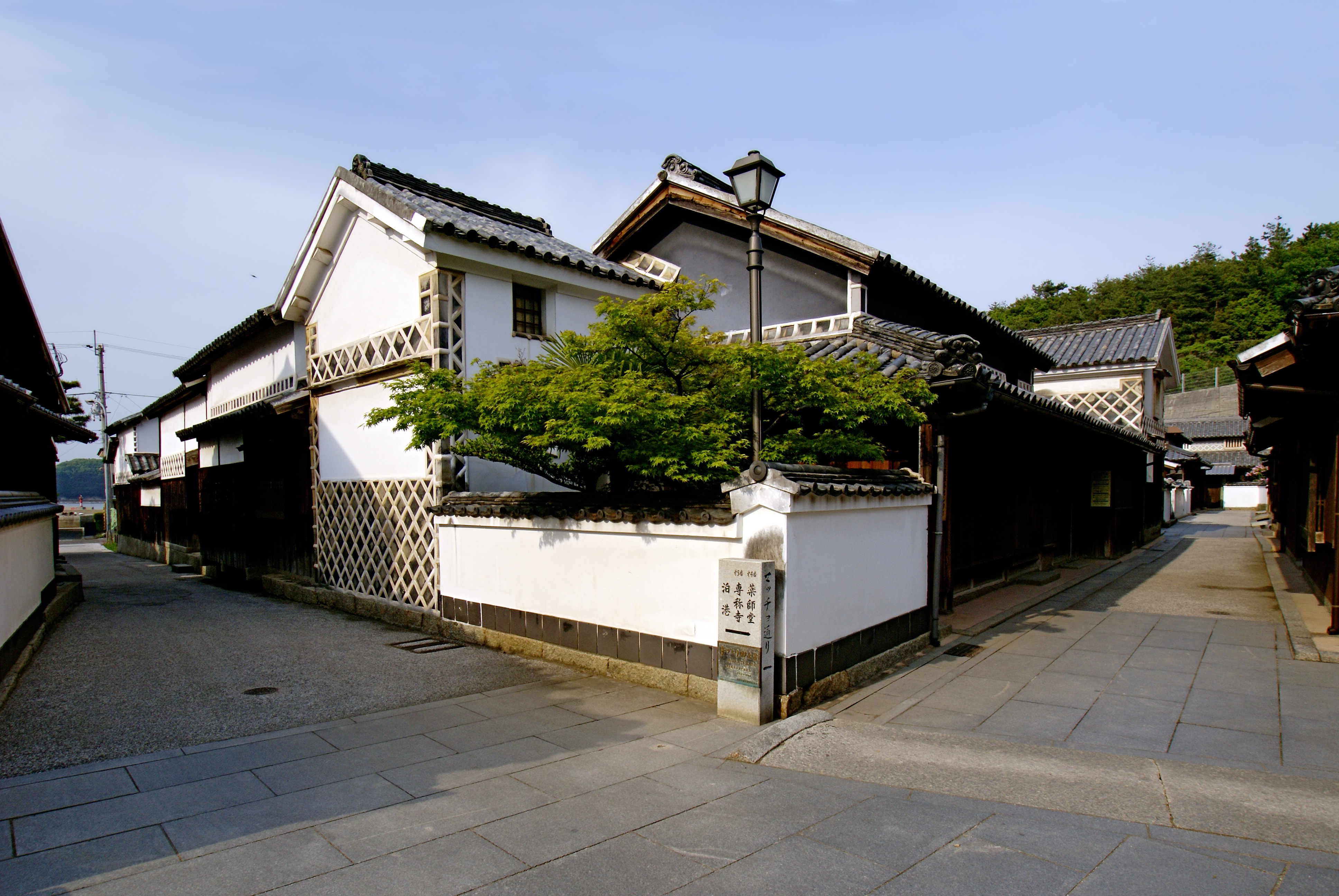 Sanagi House in Kasajima, Hon-jima of Shiwaku Islands (Marugame, Kagawa prefecture, Japan)